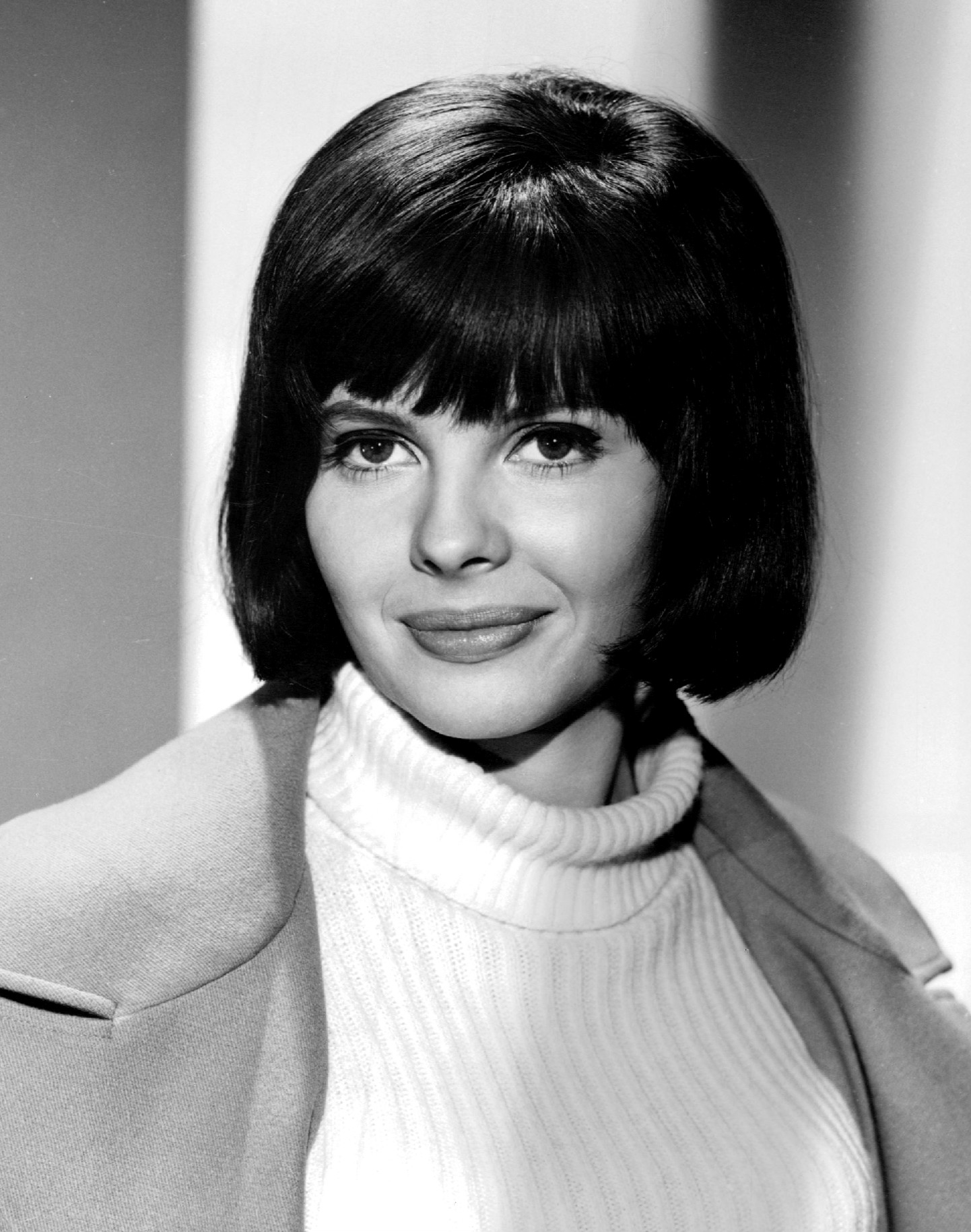 Photo of Julie Parrish from the television comedy Good Morning, World. Parrish played Linda Lewis, morning disc jockey Dave Lewis' wife.